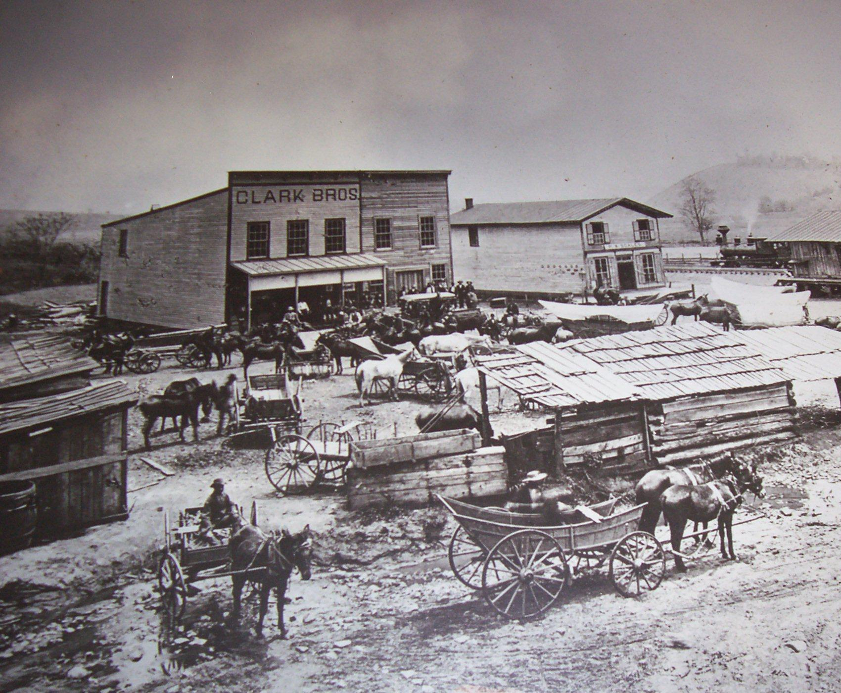 Stuart Railroad Depot in 1895, in Virginia. Digital photo of Original photo. Presented to Marguerite Tatum by Games G.Joyce. Courtesy of Anthony C. White